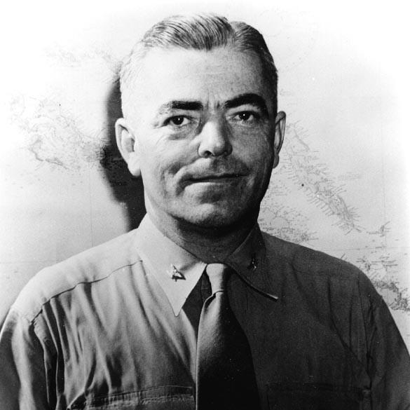 Colonel Harold D. Shannon, USMC